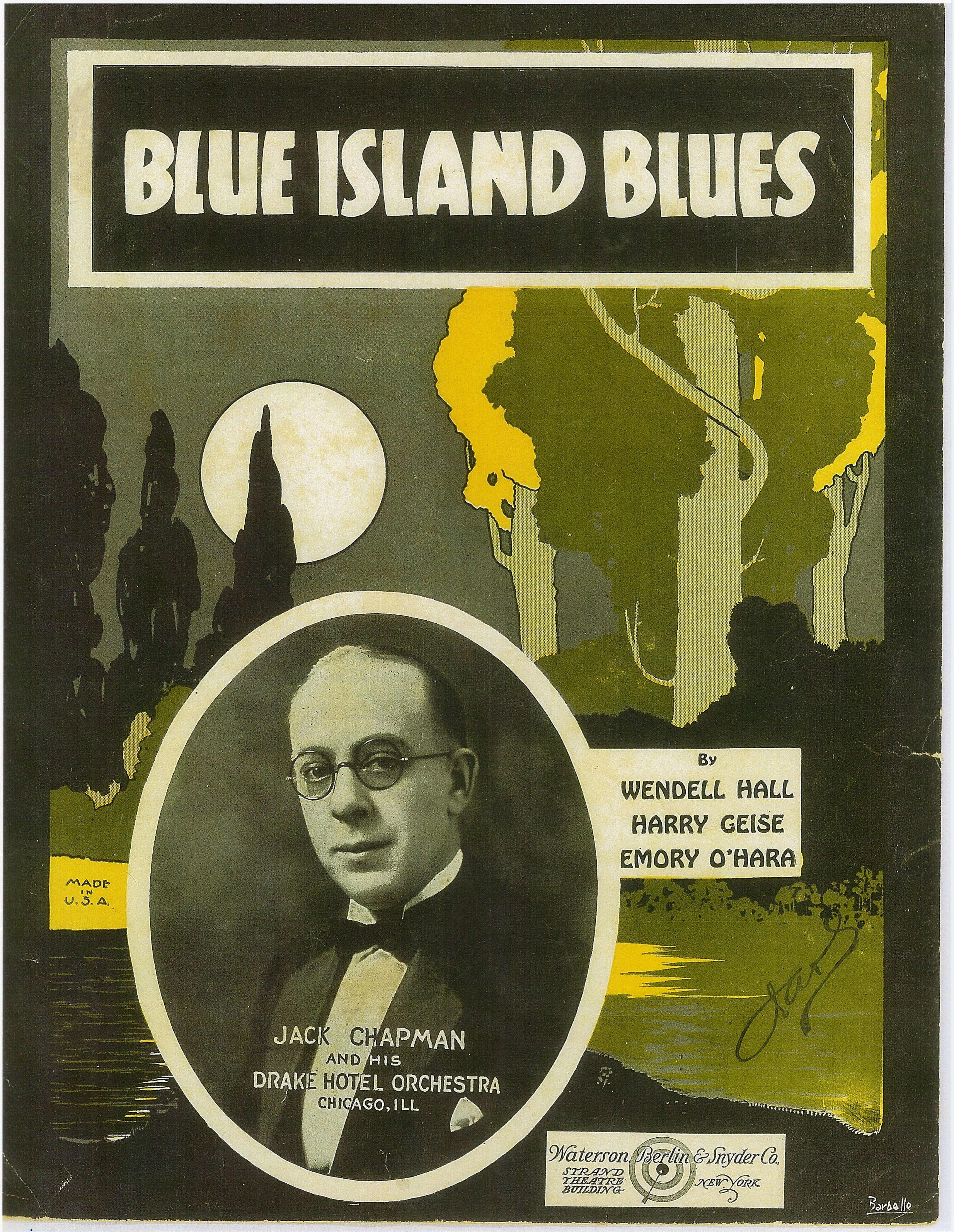 "Blue Island Blues" sheet music cover, with insert photo of Jack Chapman, bandleader at the Drake Hotel, Chicago.